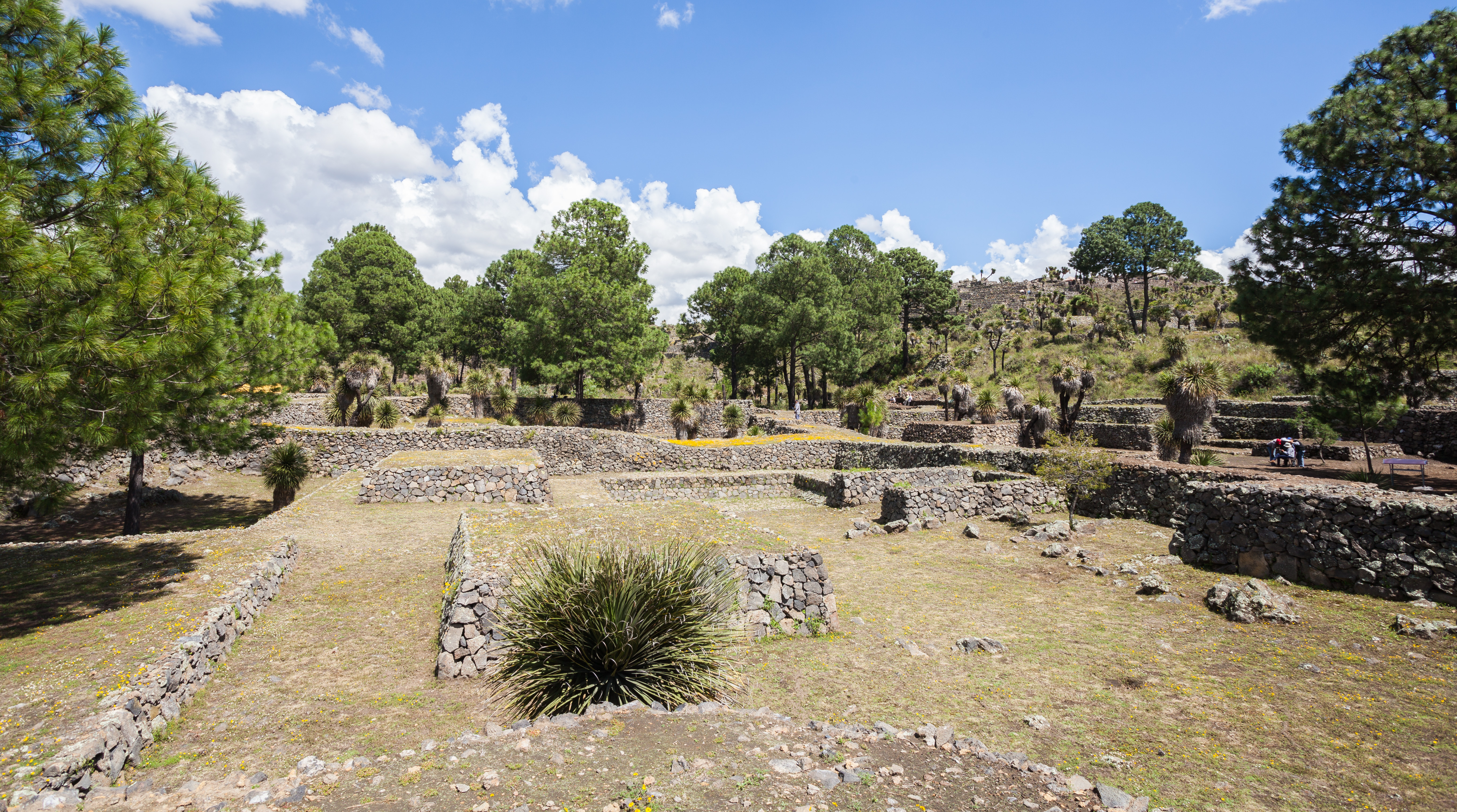 Archaeological area of Cantona, Puebla, Mexico